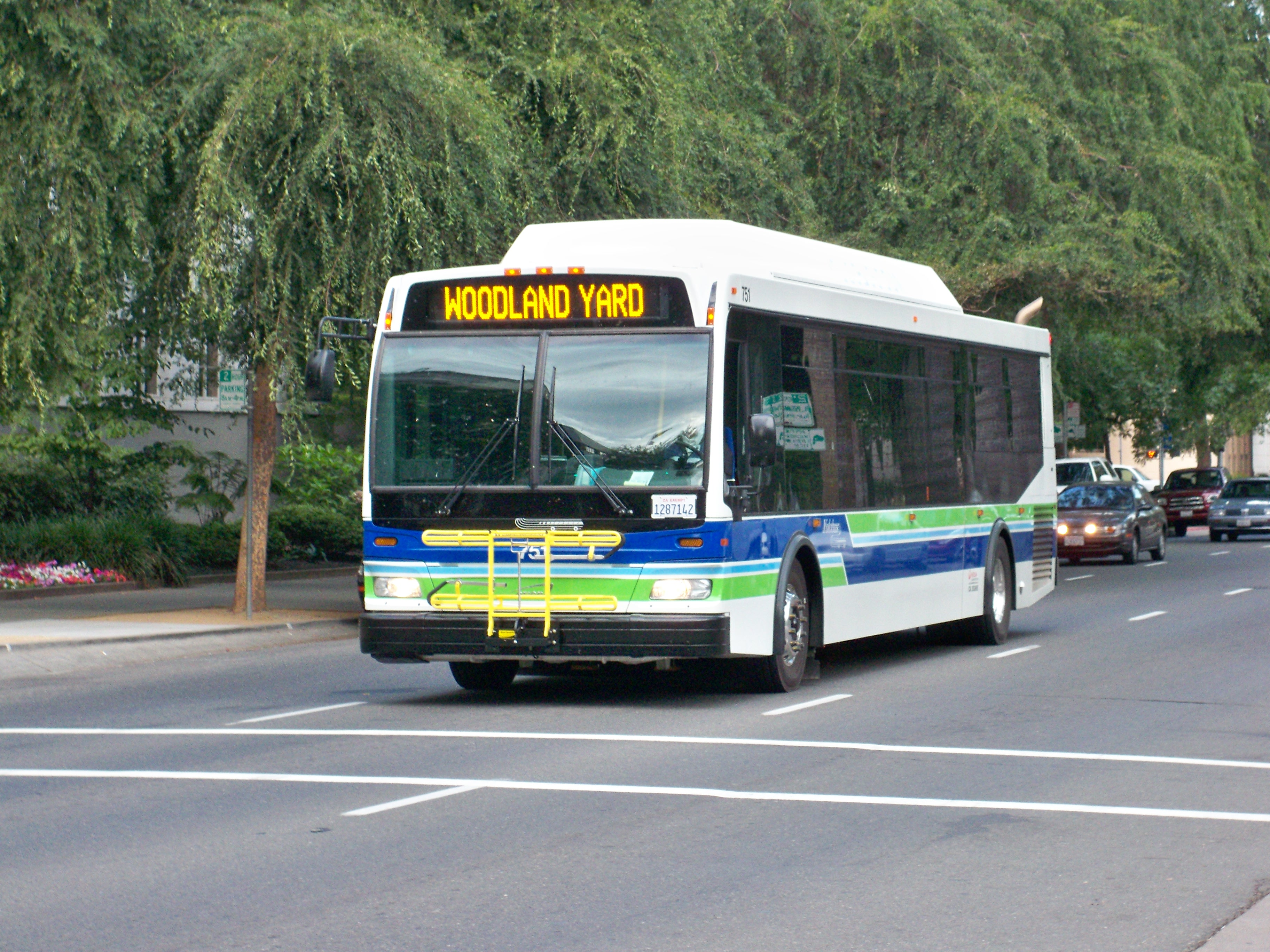 Yolo VII Next Gen Orion